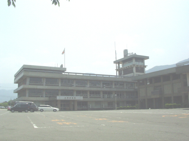 Ono City Hall in Fukui Preferture, Japan